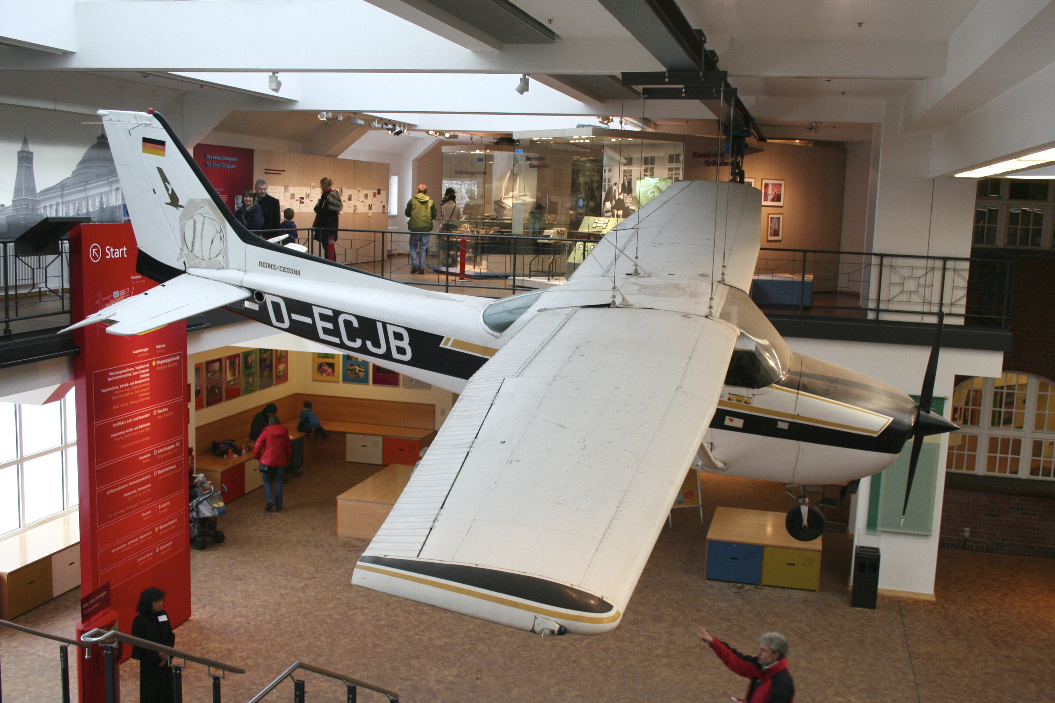 The Cessna 172 Mathias Rust used for his famous flight from Finland to Moscow in 1987. It is now being displayed at the German Museum of Technology in Berlin